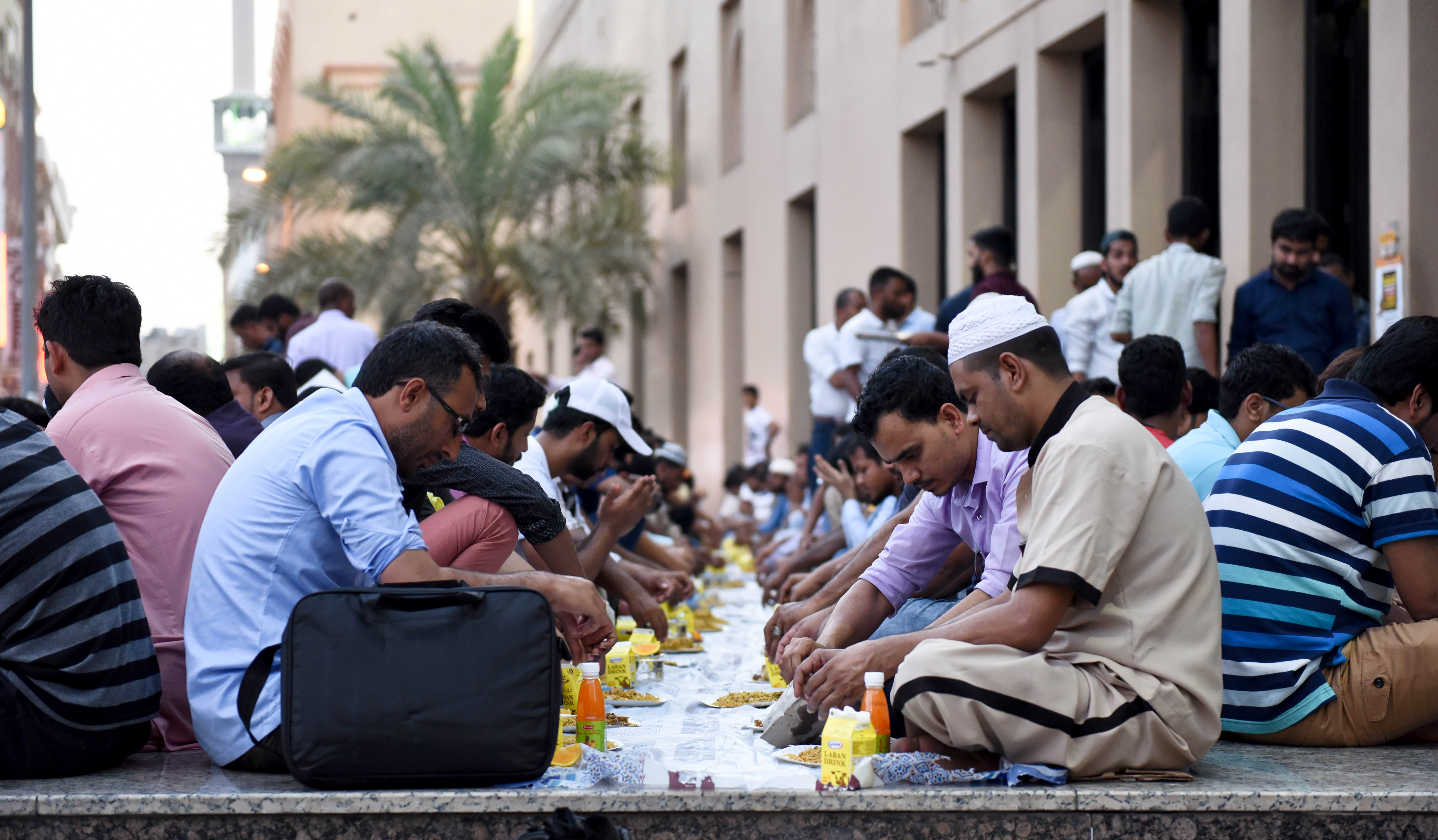 @ Bur Dubai Grand Mosque, Dubai, UAE. "Breaking the Fast" Many mosques will provide iftar (literally: break fast) meals after sundown for the community to come and end their day's fasting as a whole. - Wikipedia This Holy Month of Ramadan.